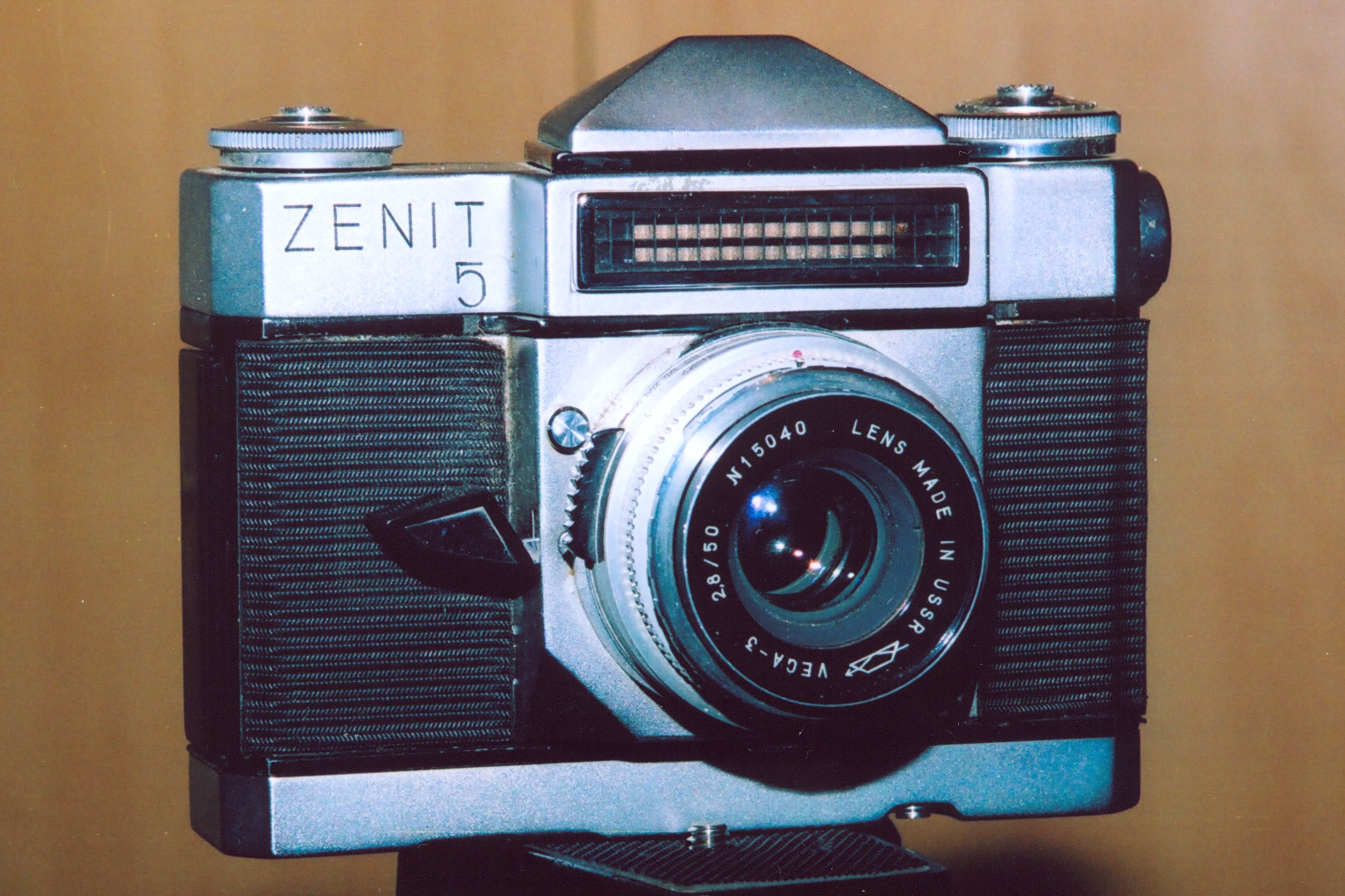 Фотоаппарат Зенит-5